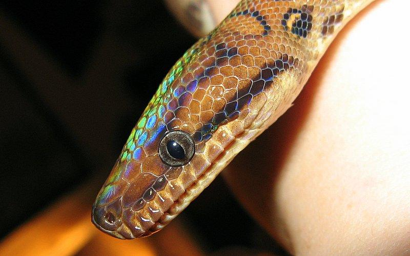 young epicrates cenchria cenchria